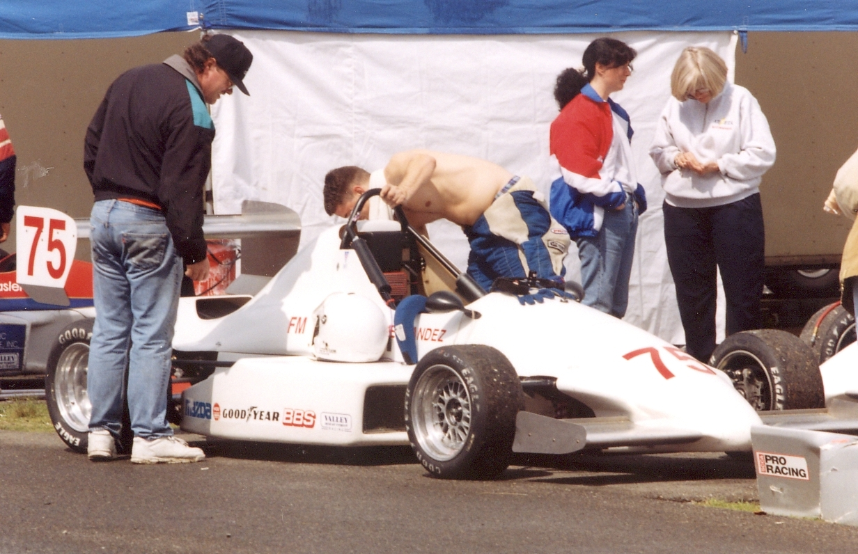 Original tube-frame car. Photo by Canonperson, circa 1997